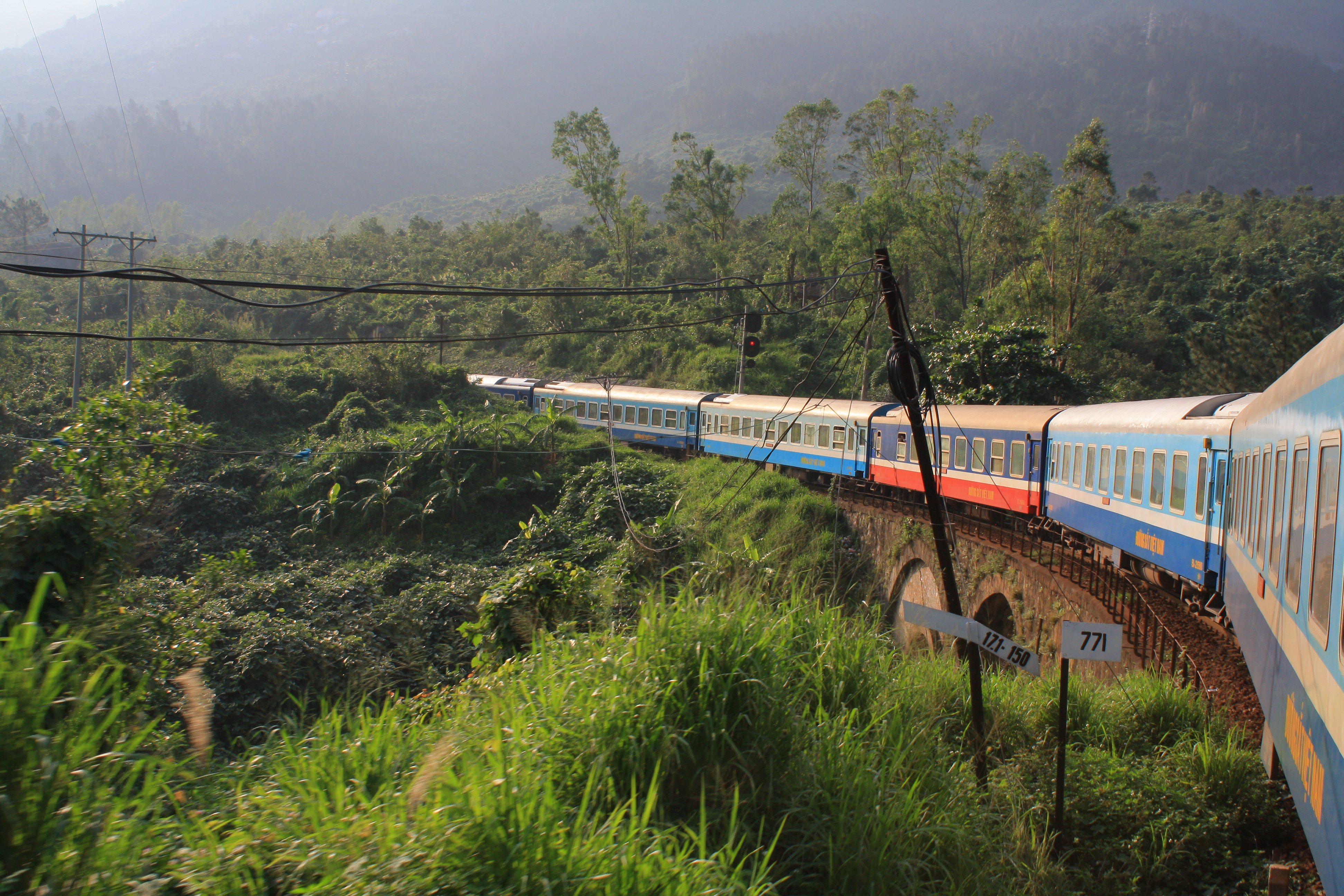 Riding the Reunification express from Hoi An to Hanoi! It was a beautiful trip the whole way!